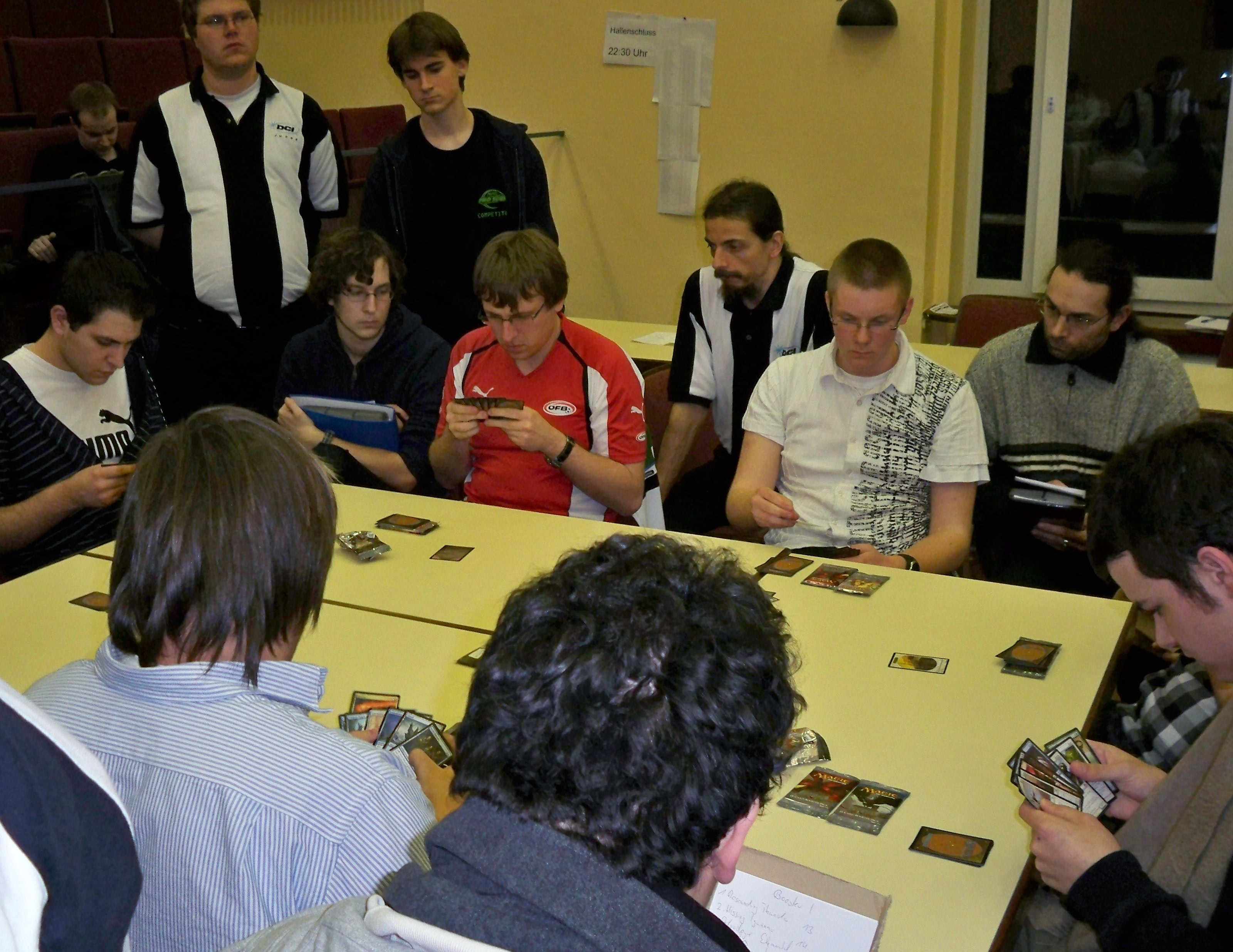 Magic: The Gathering players at the top 8 booster draft during a Pro Tour Qualifier for Kyoto in Frankfurt am Main.